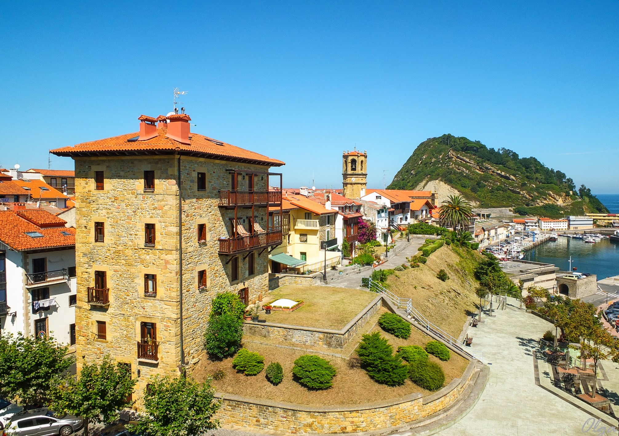 General view of Getaria.